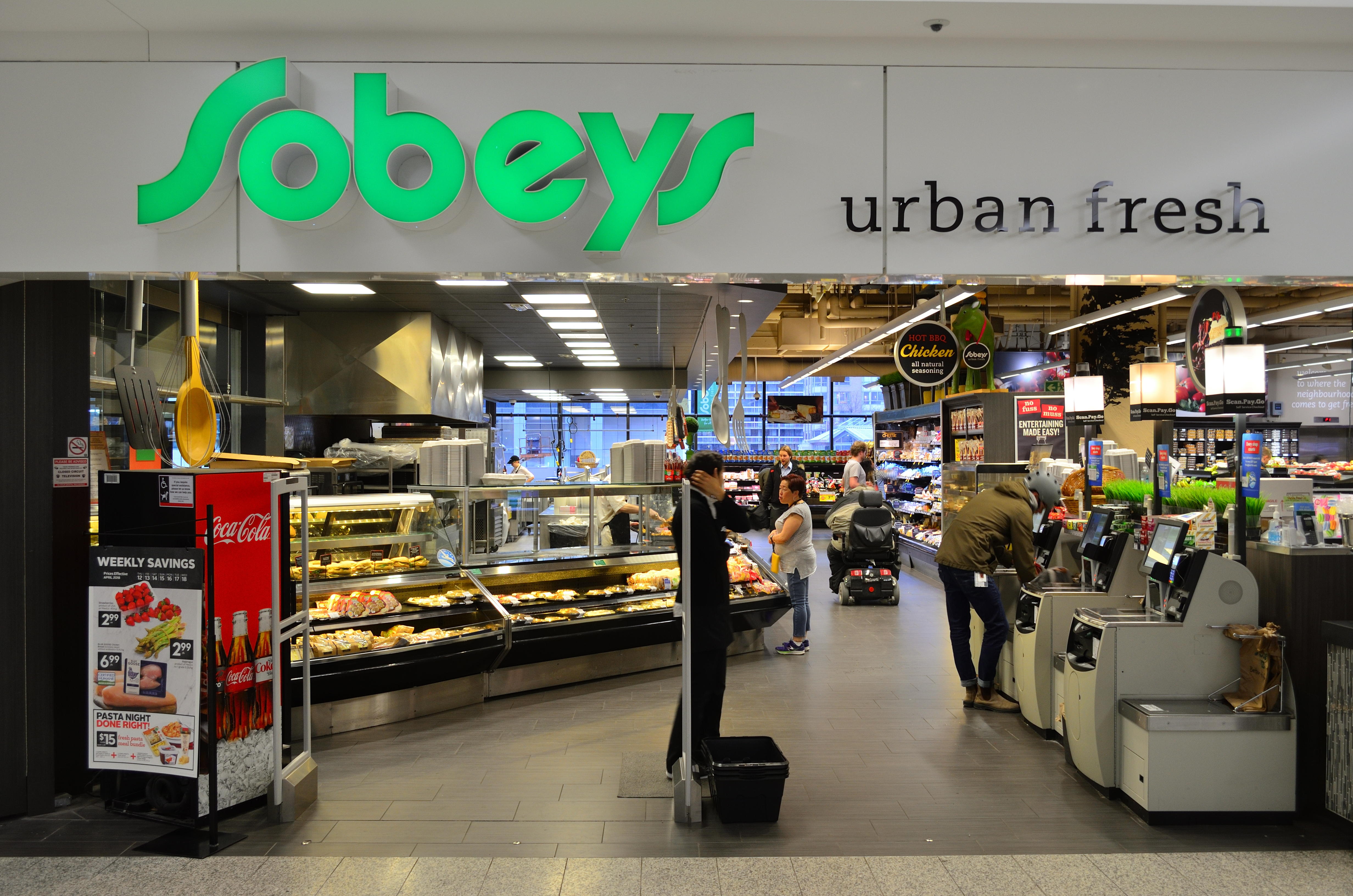 Sobeys Urban Fresh Bay Street - Address: 777 Bay Street Unit C209, Toronto M5G 2C8